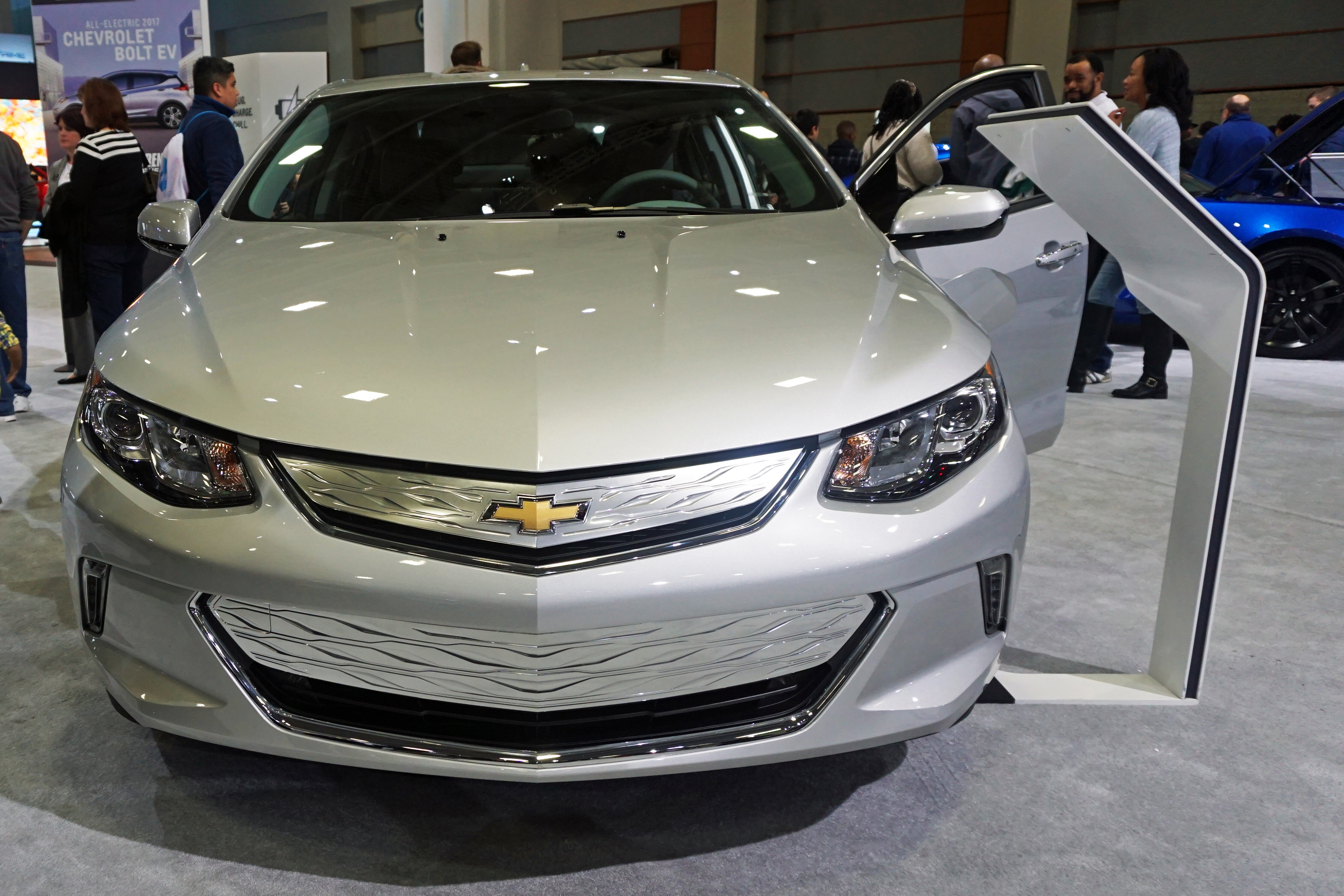 2017 Chevrolet Volt (second generation) exhibited at the 2017 Washington Auto Show, D.C., U.S.